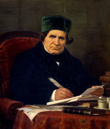 Portrait of Giovan Battista Niccolini, Italian playwright and patriot by Stefano Ussi (1822-1901), oil on canvas, 68x74 cm, 1864